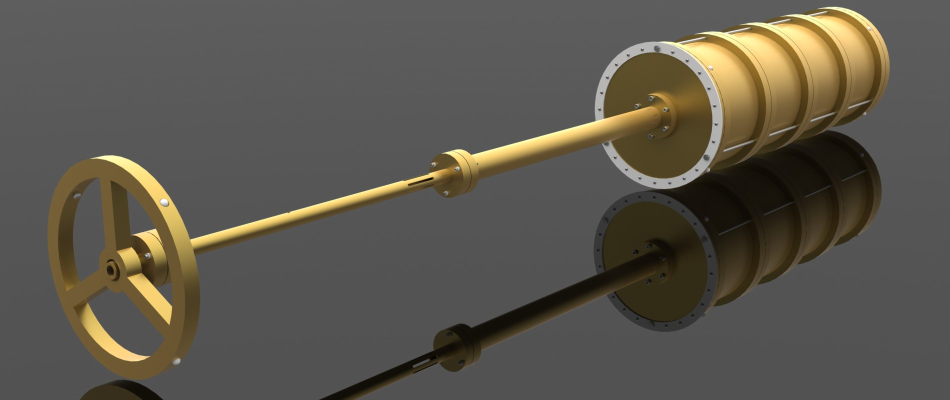 Electrode structure for a three-stage bufffer-gas trap for positrons circa 1996.